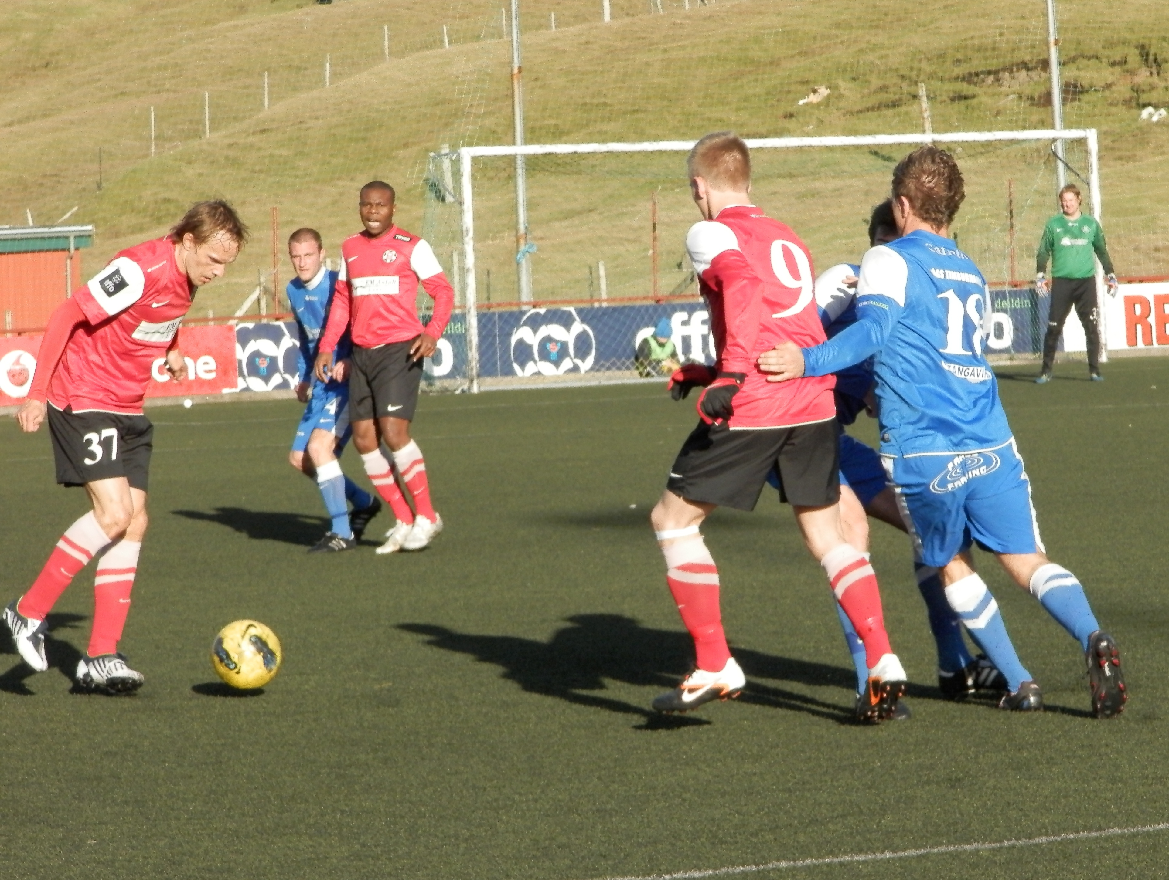 Football match on Eiðinum stadium in Vágur in Effodeildin, which is the men's best division in the Faroe Islands. The match was between FC Suðuroy and B68 Toftir. FC Suðuroy won the match 2-1. Føroyskt: Fótbóltsdystur á Eiðinum í Vági millum FC Suðuroy og B68. B68 er í reyðum, FC Suðuroy í bláum. FC Suðuroy vann dystin 2-1. Tað er landsliðsleikarin Christian Høgni Jacobsen, ið hevur bóltin til vinstru í myndini.